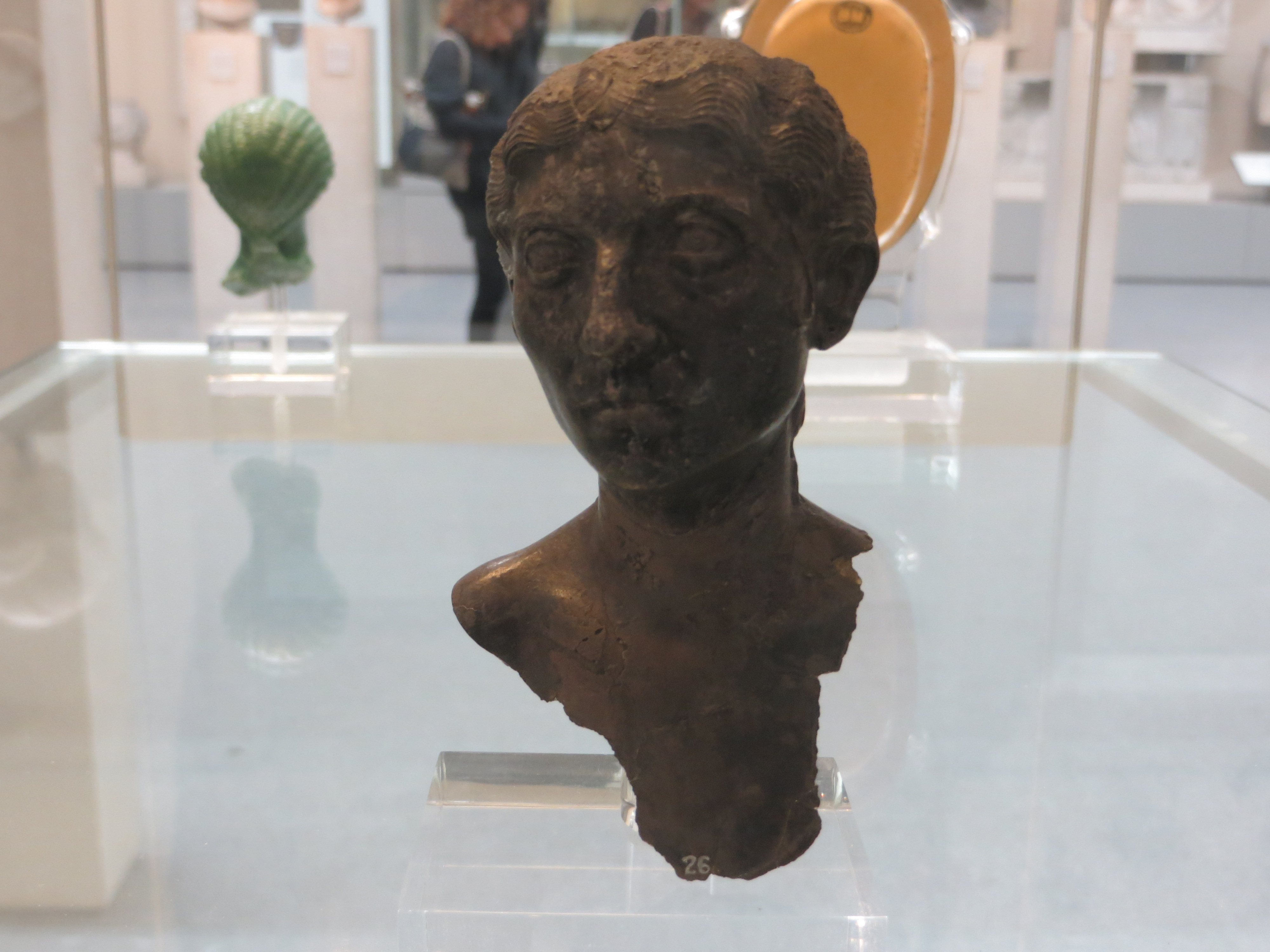 Boscoreale Treasure silver head in the British Museum